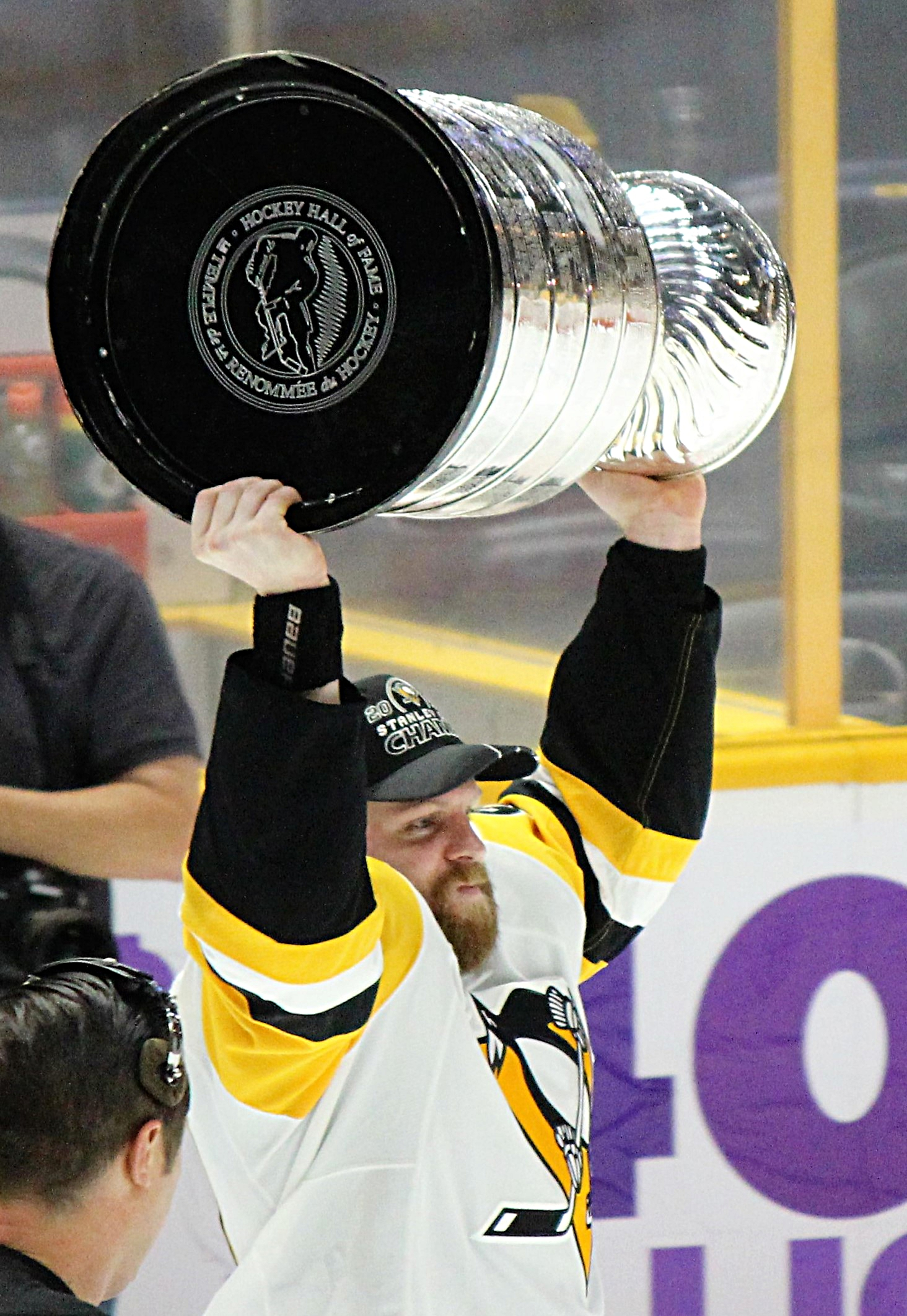 Pittsburgh Penguins forward Phil Kessel raises the Stanley Cup, June 11, 2017, at Bridgestone Arena in Nashville, TN. Phil Kessel is a two-time Stanley Cup champion.